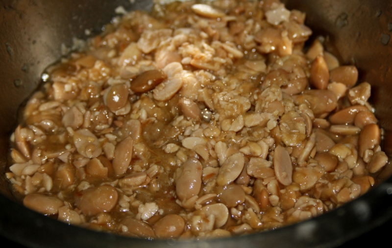 Kinema food of Nepal